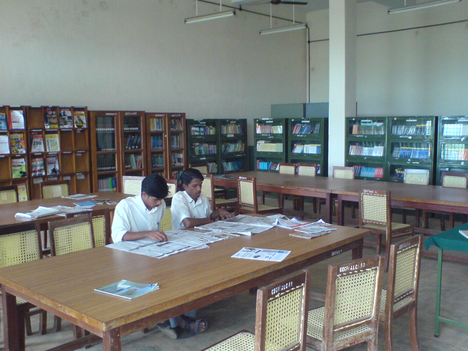 GECI - Library Reading Room